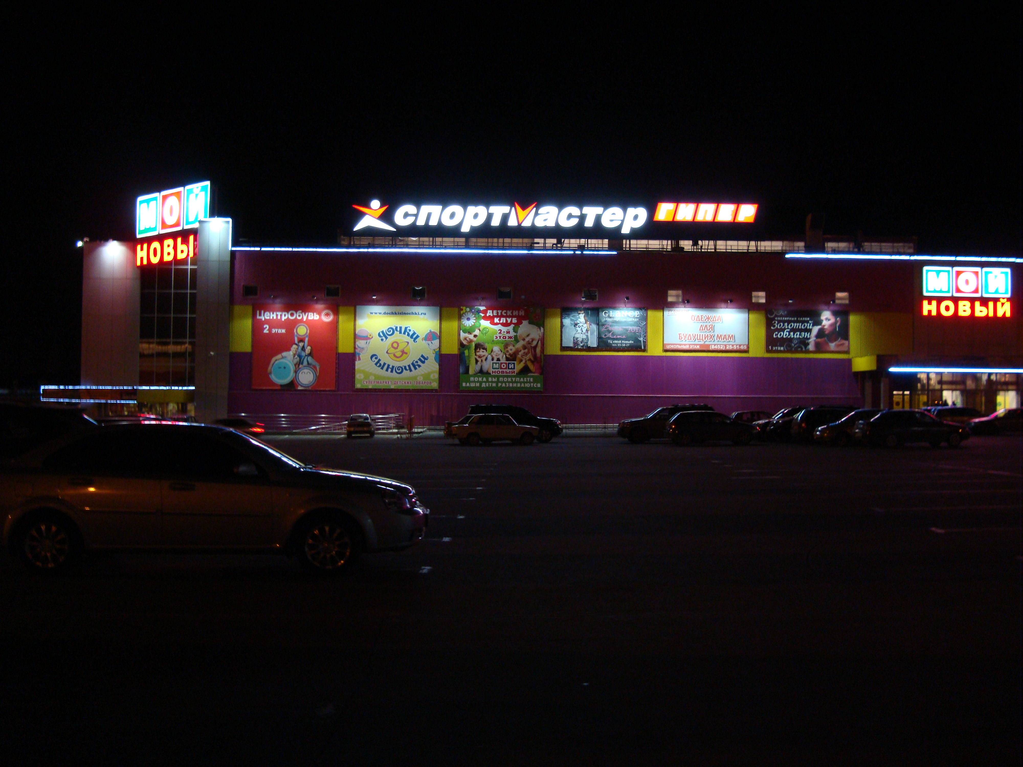 'SportMaster'-shop, Saratov